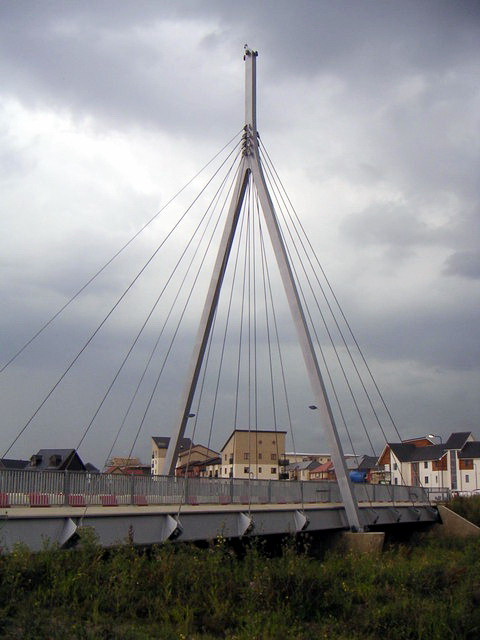 Bridge in Broughton Original description: Bridge in Broughton New road bridge near the Hungry Horse Pub in Broughton